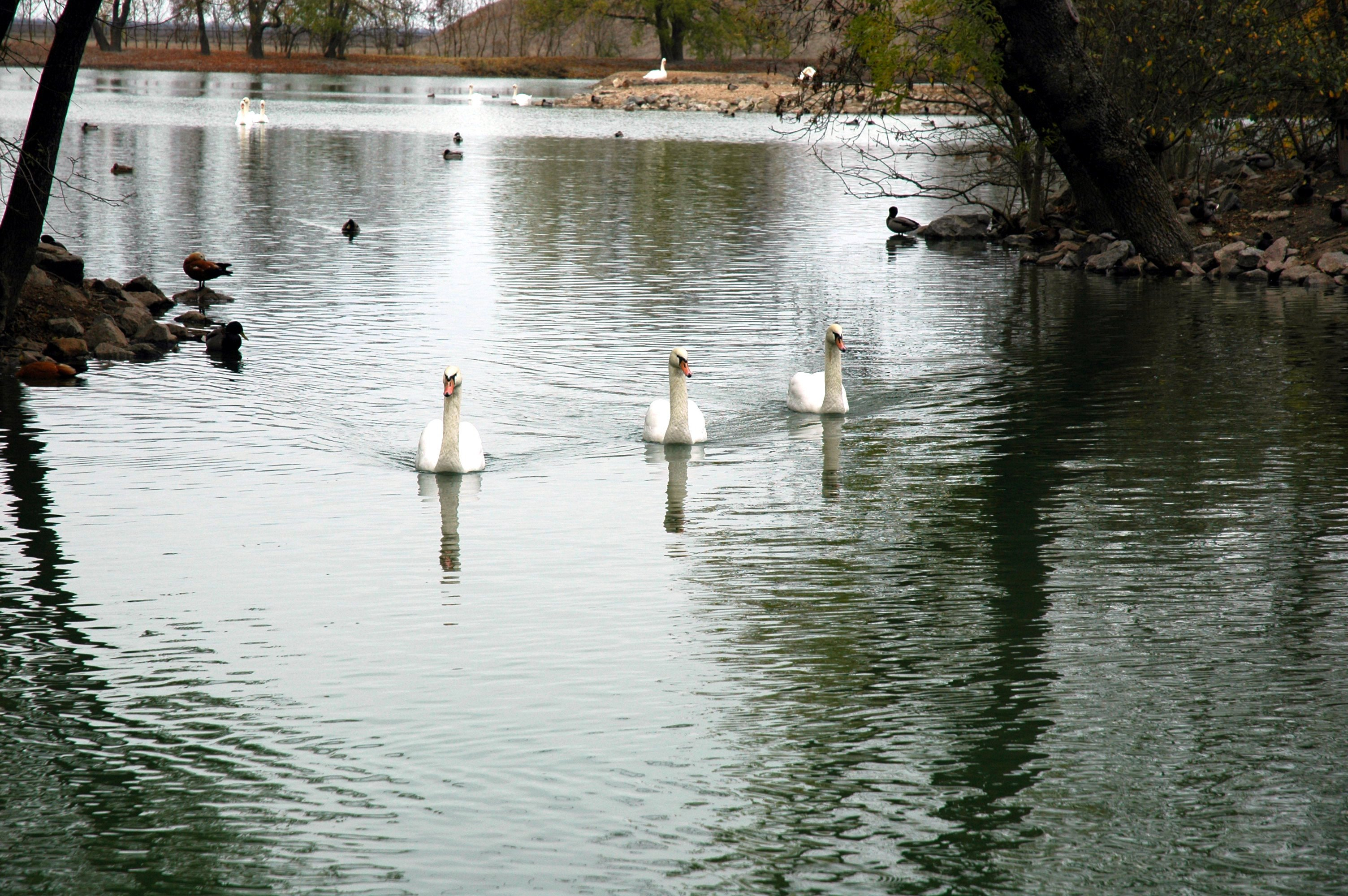 Swans in Askania Nova, a biosphere reserve (sanctuary) located in Kherson Oblast, Ukraine